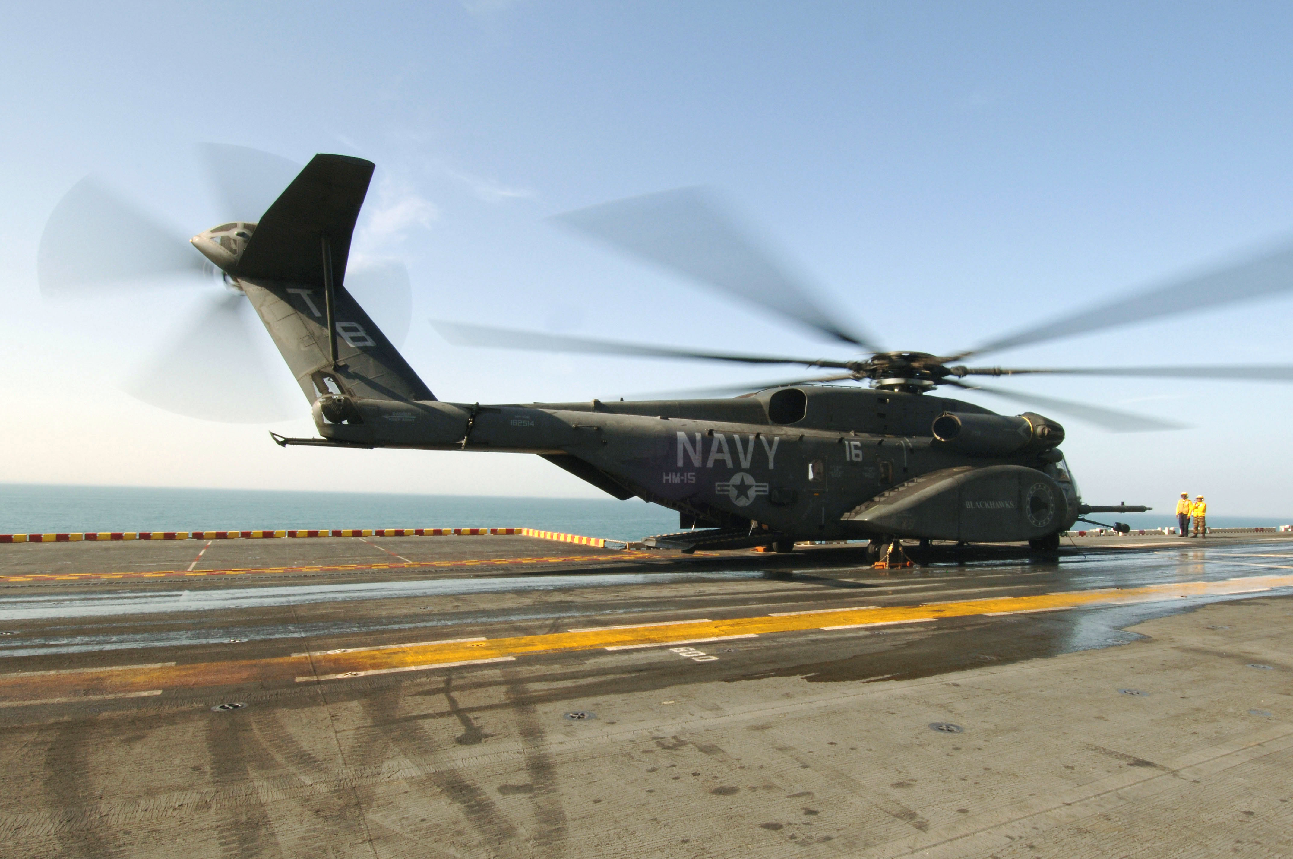 An MH-53E Sea Dragon helicopter, assigned to the Blackhawks of Helicopter Mine Counter Measure Squadron 15 (HM-15), prepares to launch from the amphibious assault ship USS Nassau (LHA 4).